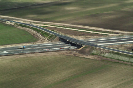 M6 freeway - bridge - Hungary - Europe